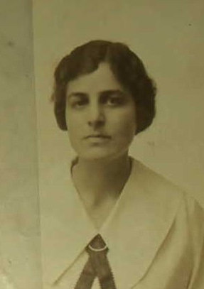 "She was born Janet January Elliott to a wealthy New York family. Her father was a railroad executive. Janet served as a Red Cross nurse in the French Third Republic during World War I. In 1919, she left New York for Paris, where she married Frederick Wulsin, a Harvard University graduate from a prominent Ohio family. Inspired by the travels of Roy Chapman Andrews, the Wulsins resolved to travel the world. From 1921 to 1925, the couple mounted expeditions to the far reaches of China, Tibet, and Outer Mongolia to study the people, flora, and fauna of the region. With a grant from the National Geographic Society, they took 28 camels, six horses, four Mongolian camel drivers and 10 Chinese "specimen collectors." Together, the Wulsins collected 1,400 botanical and zoological specimens and documented Buddhist rituals. They also took hundreds of photographs, documented tribespeople and desert landscapes, and were even allowed to photograph the interior of several of the great Tibetan Buddhist lamaseries, one of few early Westerners allowed to do so. In 1926, National Geographic published one account of their expeditions, but Janet's contributions went uncredited. Stray newspaper articles in the United States were often misleading or inaccurate. The Wulsins returned to the United States in 1925, and divorced in 1929. Elliott remarried Richard Hobart, a banker and collector of Chinese art. Janet's role in her first husband's expeditions went largely uncredited until after her death in 1963, when her daughter, Mabel Cabot, mother of Ali Wentworth, found her mother's private letters and diaries and published Vanished Kingdoms (ISBN 0-641-68638-2), a biographical account of Janet's explorations." from